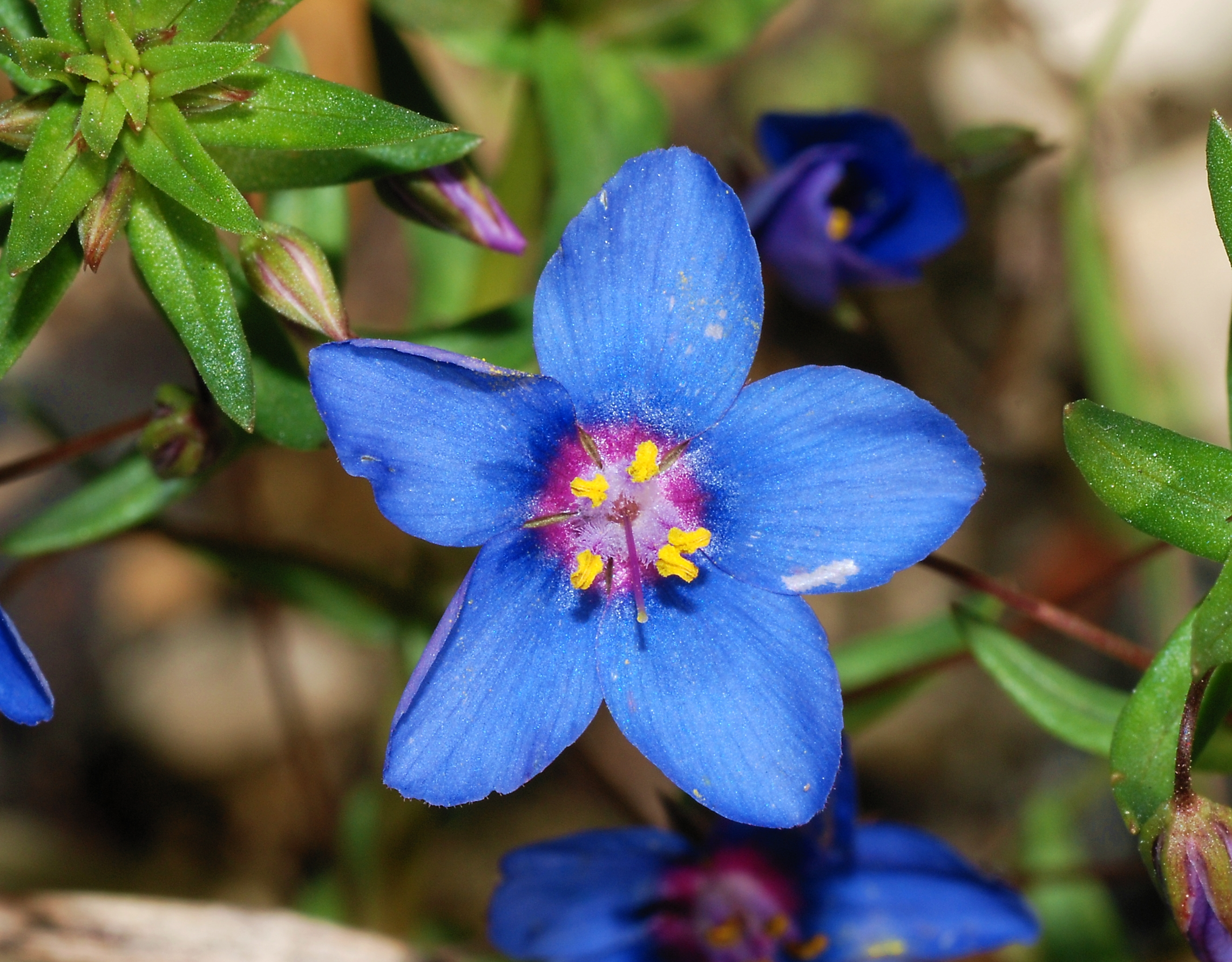 Scarlet Pimpinel